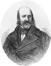 James Wyld the Younger (1812-1887), mapmaker, liberal MP for Bodmin and owner of the Great Globe, Leicester Square